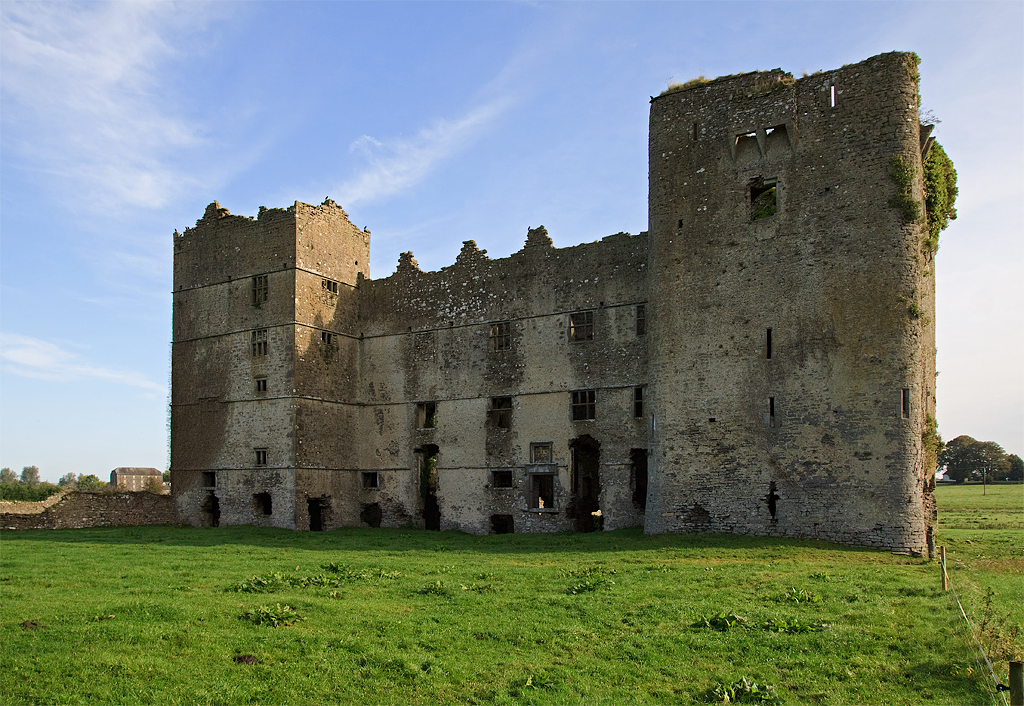 Castles of Munster: Loughmoe, Tipperary (4) A view of the rear of this remarkable building. On the end of the attached C17 mansion on the far left is a five storey wing at the NW corner containing private rooms.